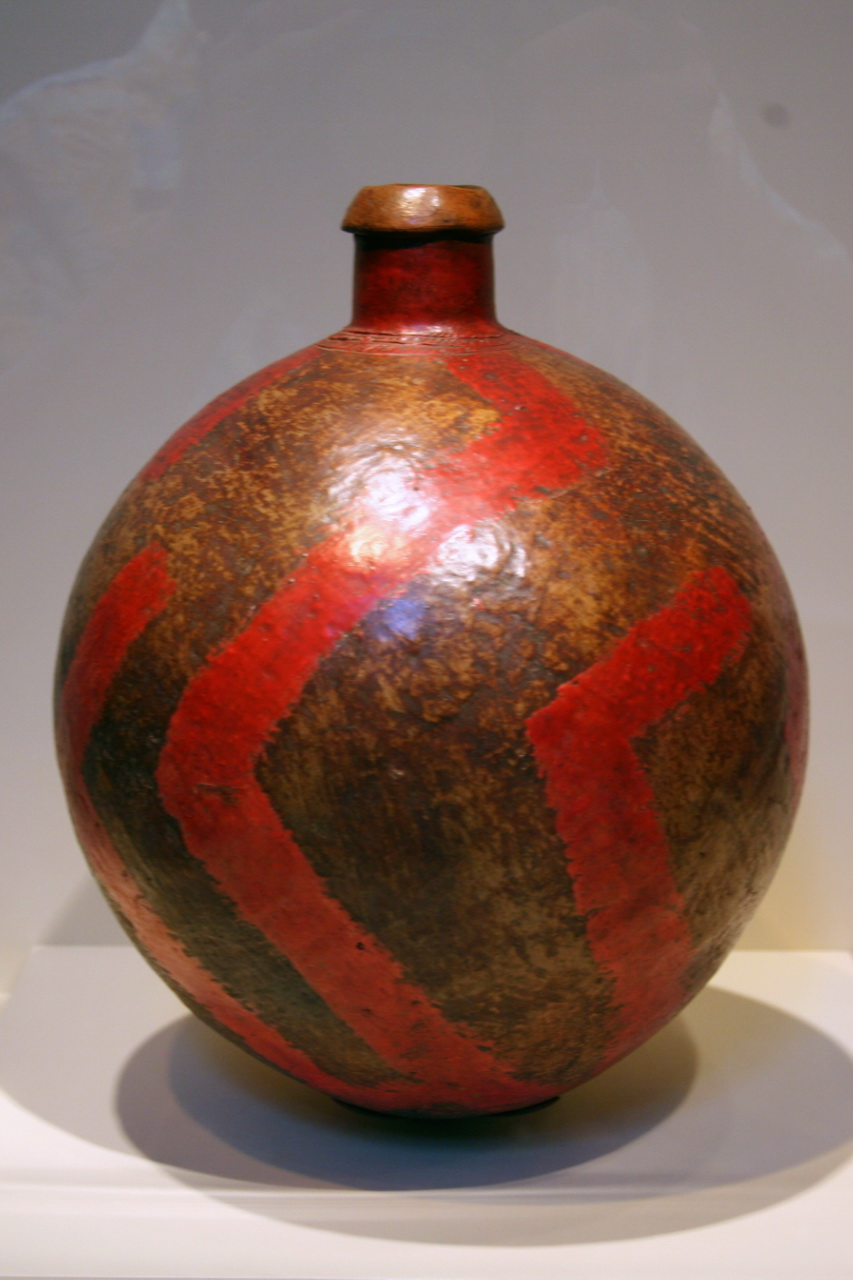 Bottle, Tswa peoples, Rwanda, Early-mid 20th century, Ceramic, resin, commercial paint, wax. Potters--primarily women--handbuild a variety of vessels that they embellish with beautiful colors, designs and motifs before firing them at low temperatures. Containers made for daily use hold water or serve as cooking utensils. They also make vessels to be used in special ceremonies or that become part of an assemblage of objects placed in a shrine. The brilliant red, bold zigzag motif was probably rendered with imported paint and applied to the body after firing. The surface was covered with wax to enhance the natural color of the clay. The paint and wax may have been applied to the bottle by someone other than the potter.